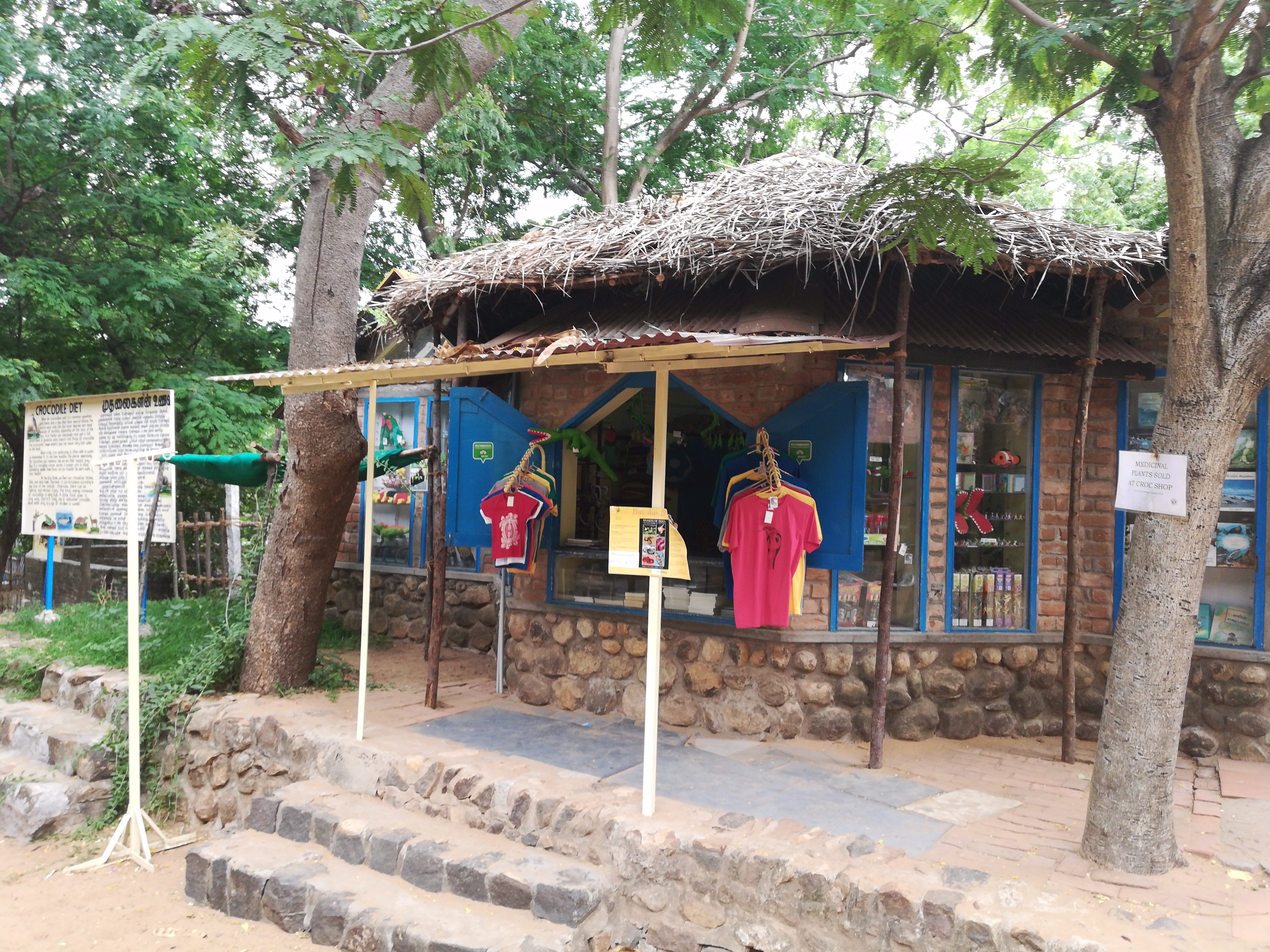 Souvenir shop at the CrocBank, Chennai, on 21 July 2018